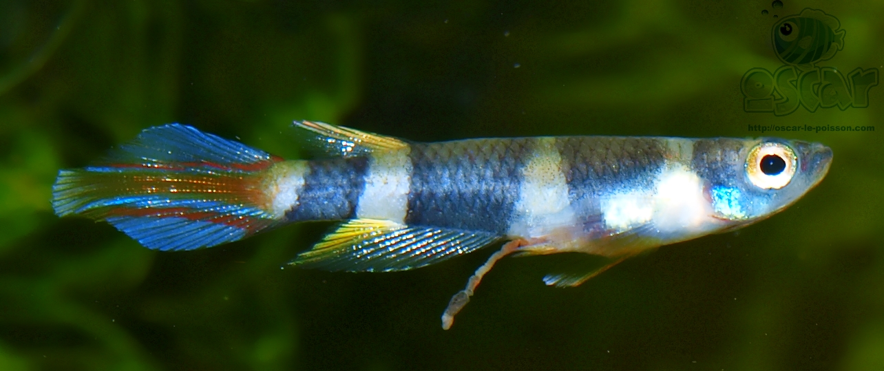 Adult, male specimen of Clown killi, also called Banded panchax (Epiplatys annulatus).